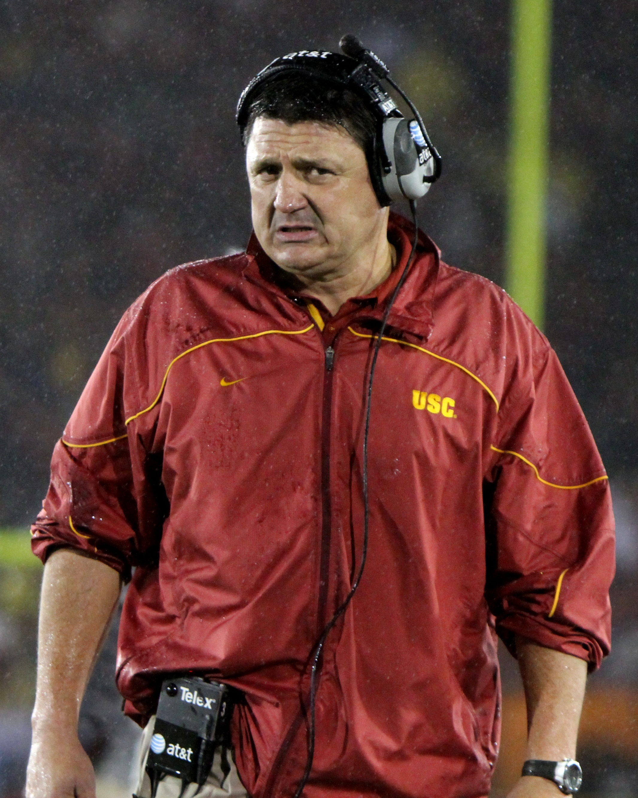 Former USC Trojans football coach, Ed Orgeron during a November 2010 game.